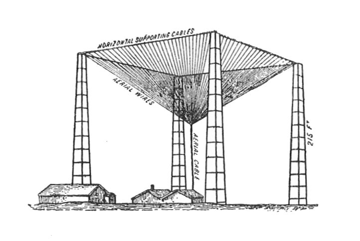 Marconi wireless station and aerials (Rankin Kennedy, Electrical Installations, Vol V, 1903).jpg